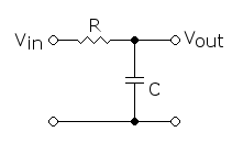 A low-pass filter. Created by User:Omegatron using Klunky schematic editor, which the creator considers public domain (possibly with post-editing in the GIMP or Inkscape)